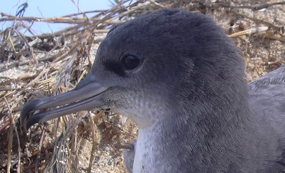 Wedge-tailed Shearwater close up of head.